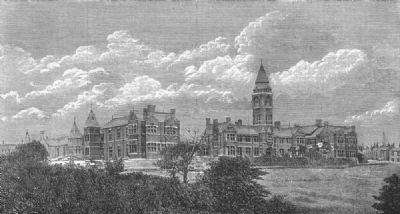 New hospital, Bolton, Lancashire, antique print